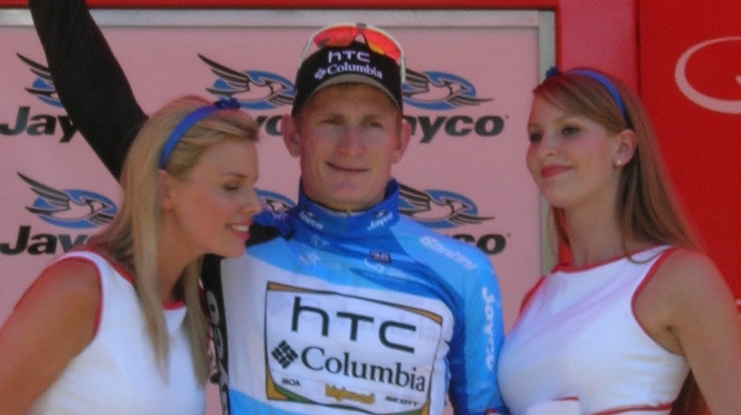 Team HTC-Columbia rider André Greipel after receiving the Sprinters' blue jersey on the podium after Stage 3 of the 2010 Tour Down Under into Stirling.